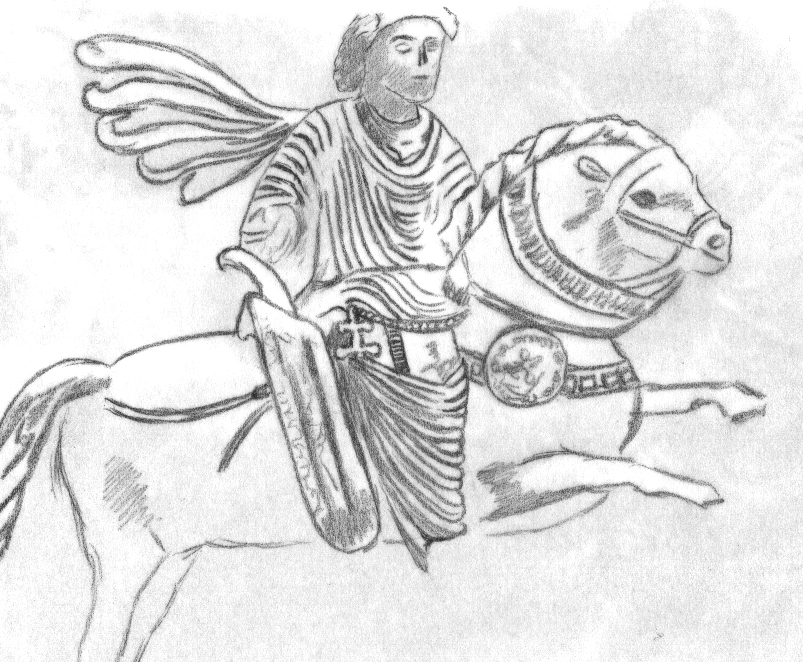 Parthian cavalryman, Palmyra, modern Syria.